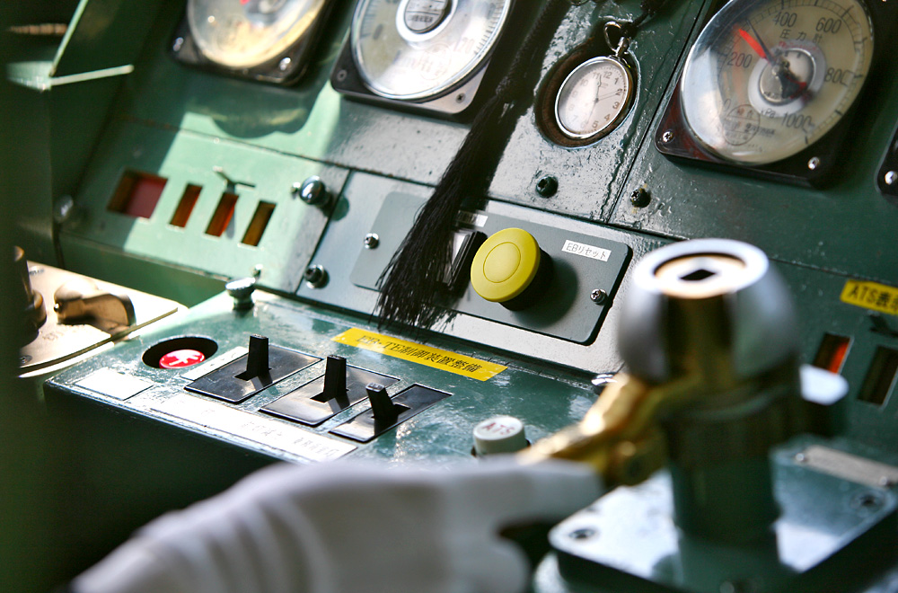 Emergency break reset switch ( yellow button ) of JR West 113 series EMU